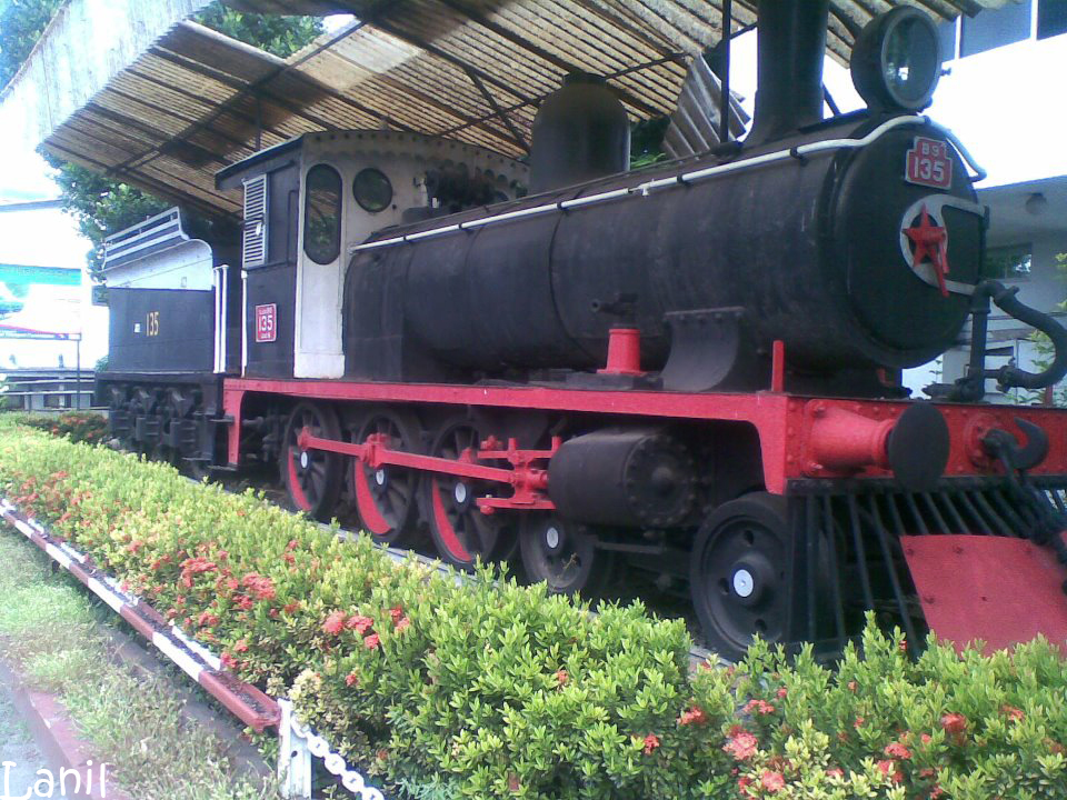 Class B9 No.135 Preserved Steam Locomotive Outside Colombo Fort Railway Station, Sri Lanka